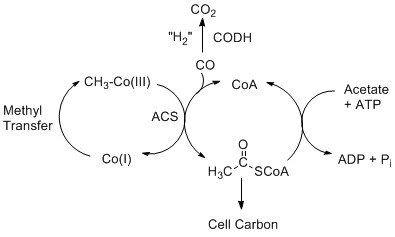 Acetyl-CoA Synthase autotrophic growth